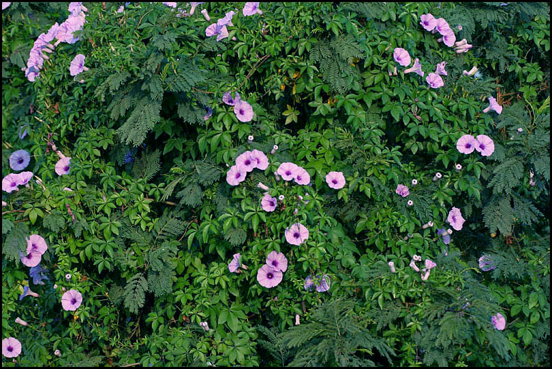 Messina creeper, coast morning glory, Cairo morning glory, railroad creeper or mile-a-minute vine Ipomoea cairica near Hyderabad, India.